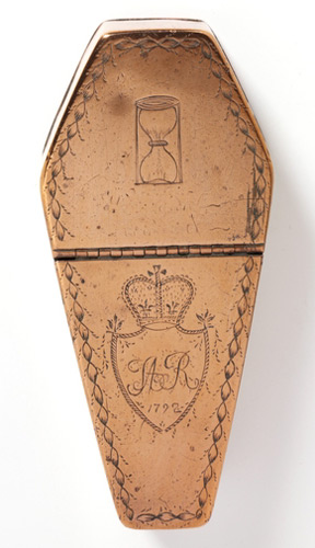 Snuff Box, Sheet copper, raised, tinned inside and engraved, England, dated 1792, Owner's initials 'IAR, 1792' Croft Lyons bequest.